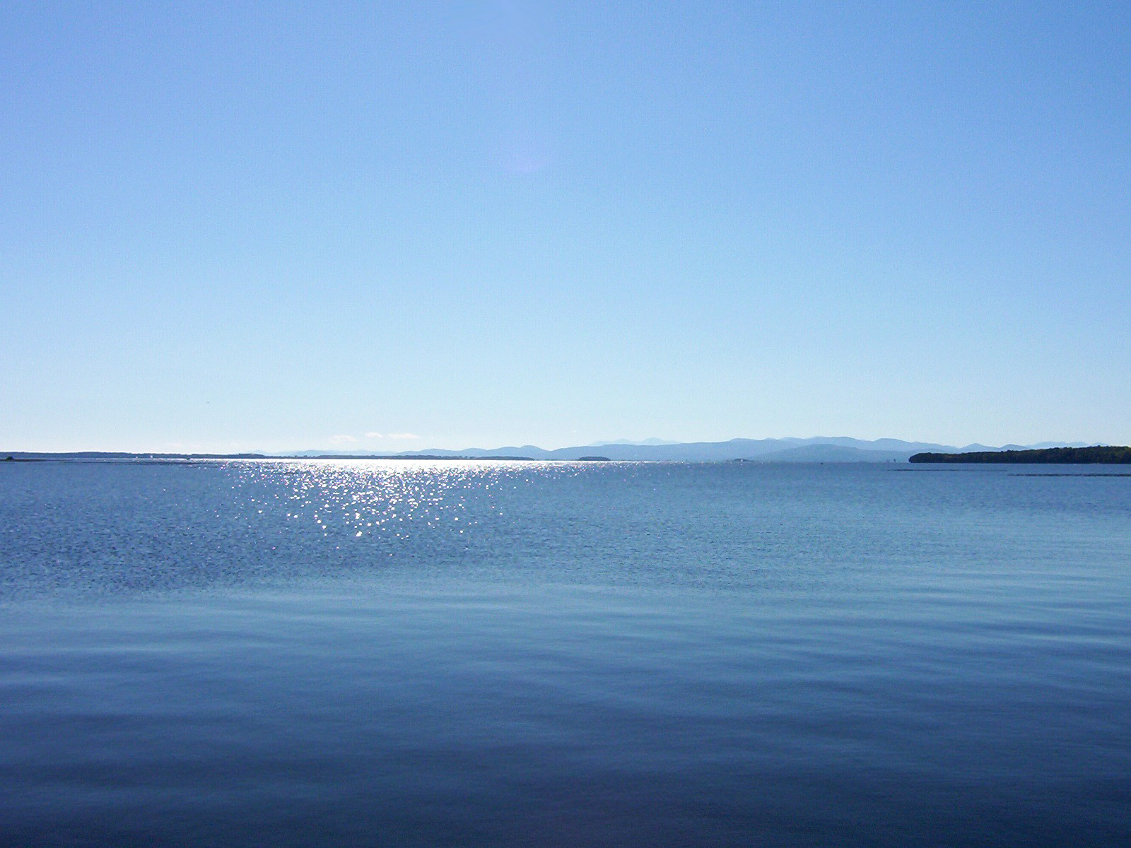 Lake Champlain in September from Vermont